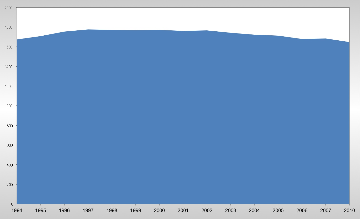 This image shows the population statistics of Wandersleben (Germany).